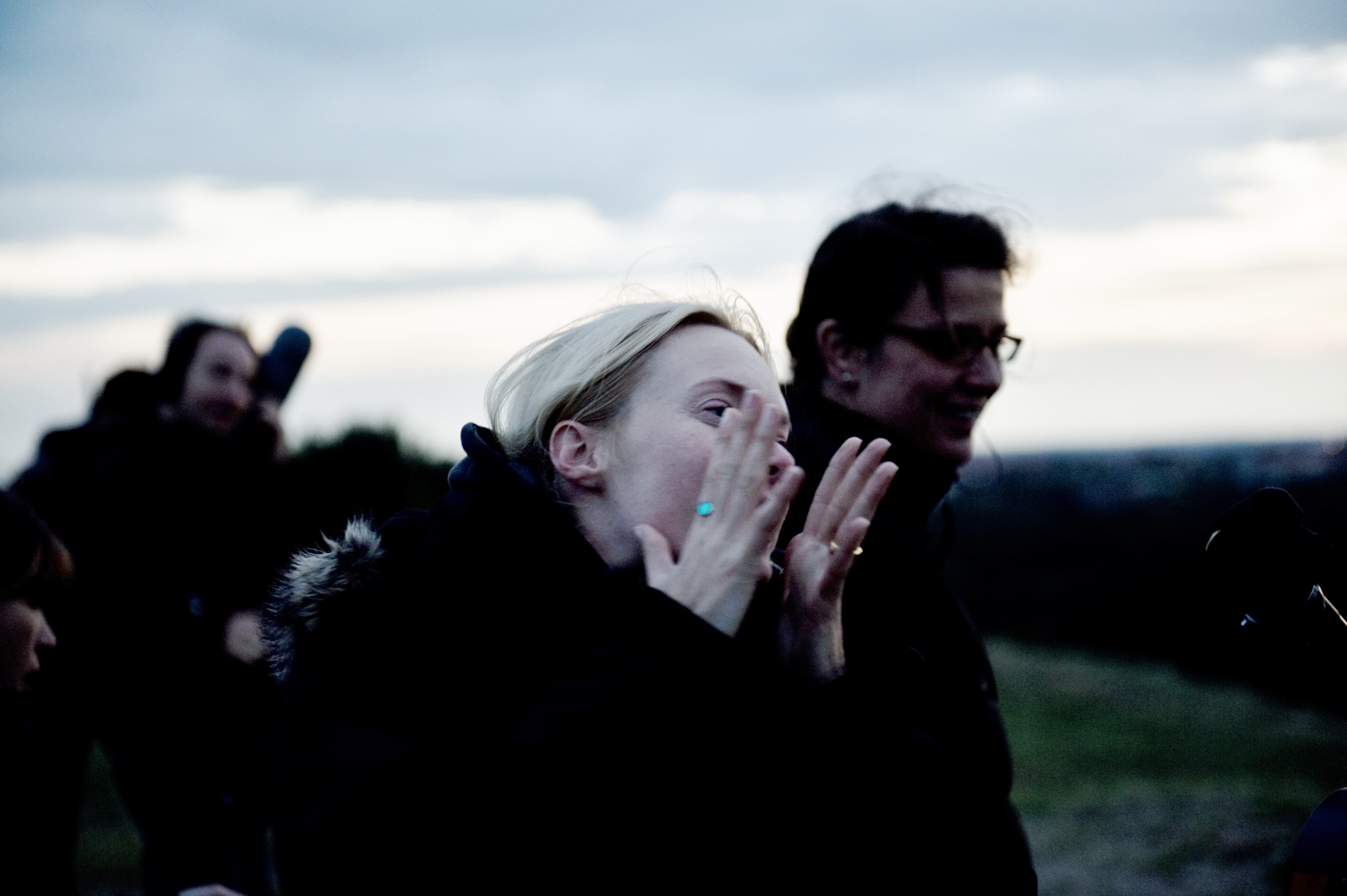 Feo Aladag on the set of "Die Fremde"